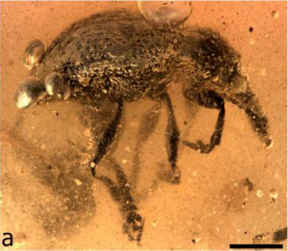 Calyptocis brevirostris, holotype. Habitus, right lateral (a) Scale bar: 1.0 mm